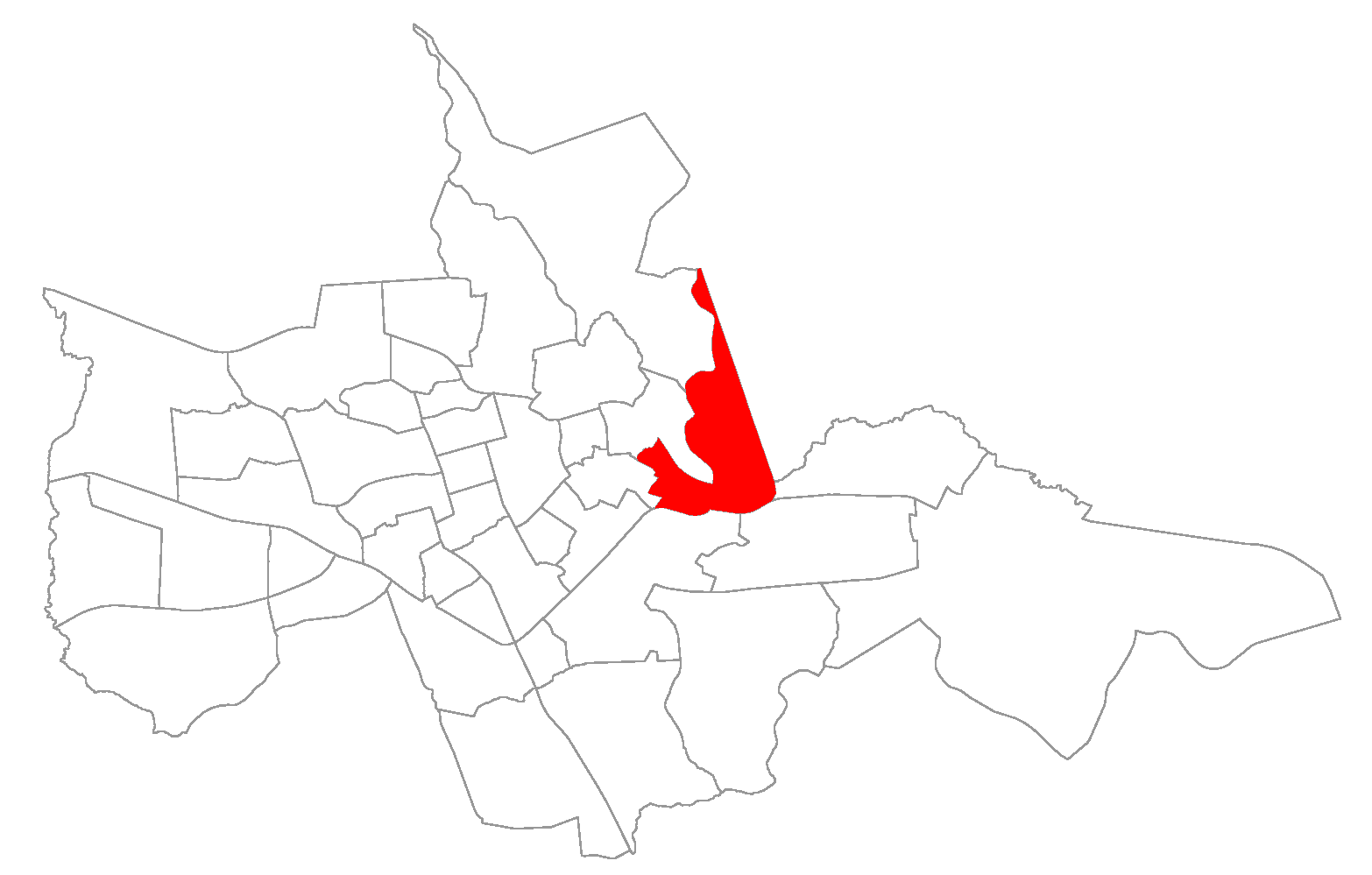 neighborhood/district of Santa Maria, Rio Grande do Sul